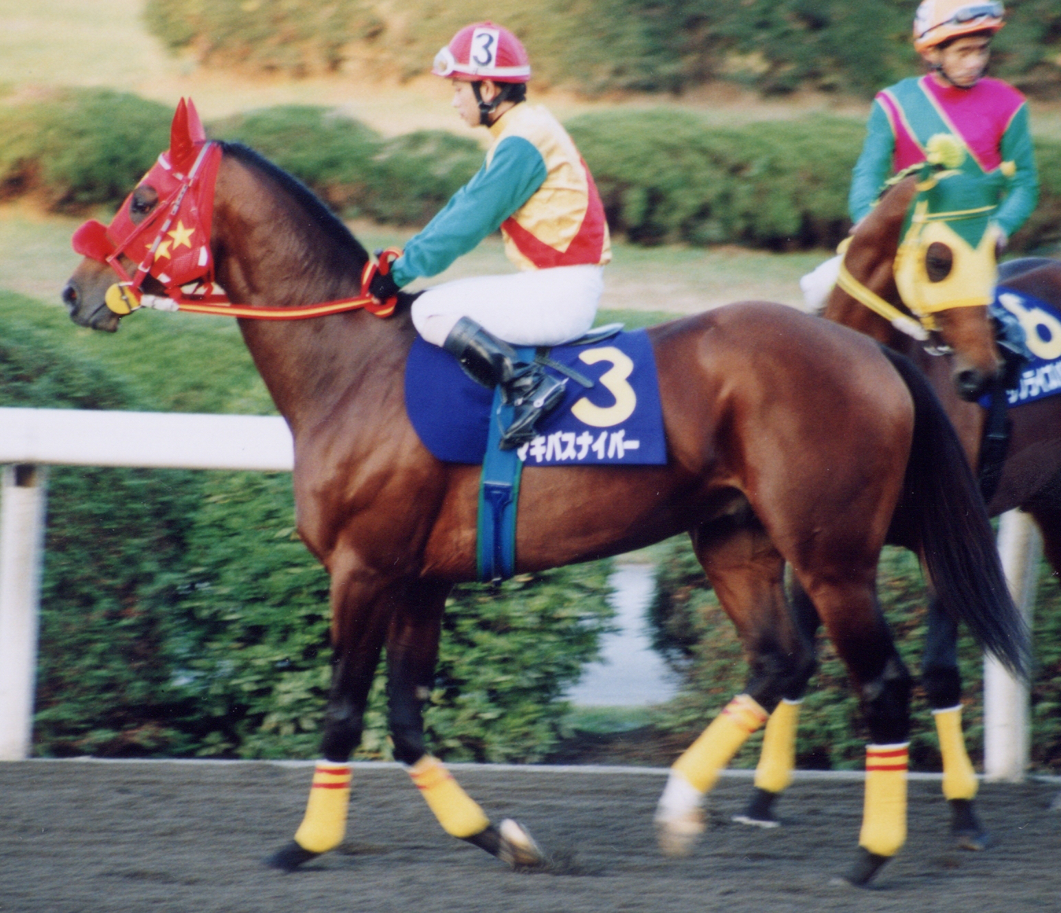 Makiba Sniper (horse)